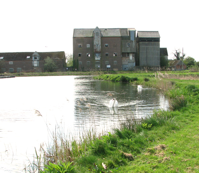 Ebridge Mill, Norfolk, England, before its conversion into housing seen across the restored mill pond.